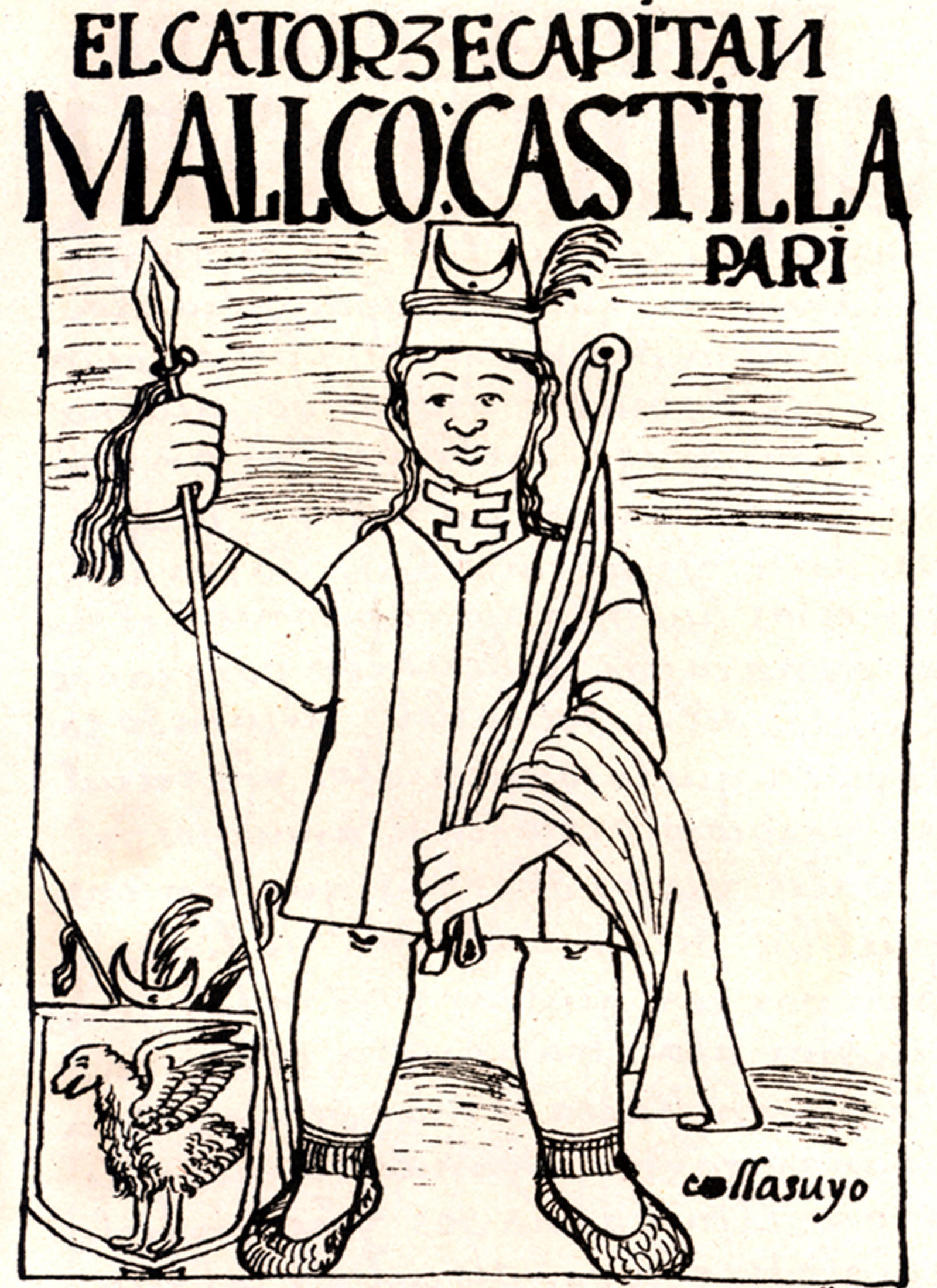 Ilustration showing Mallco Castilla Pari, fourteenth chief of Collasuyo